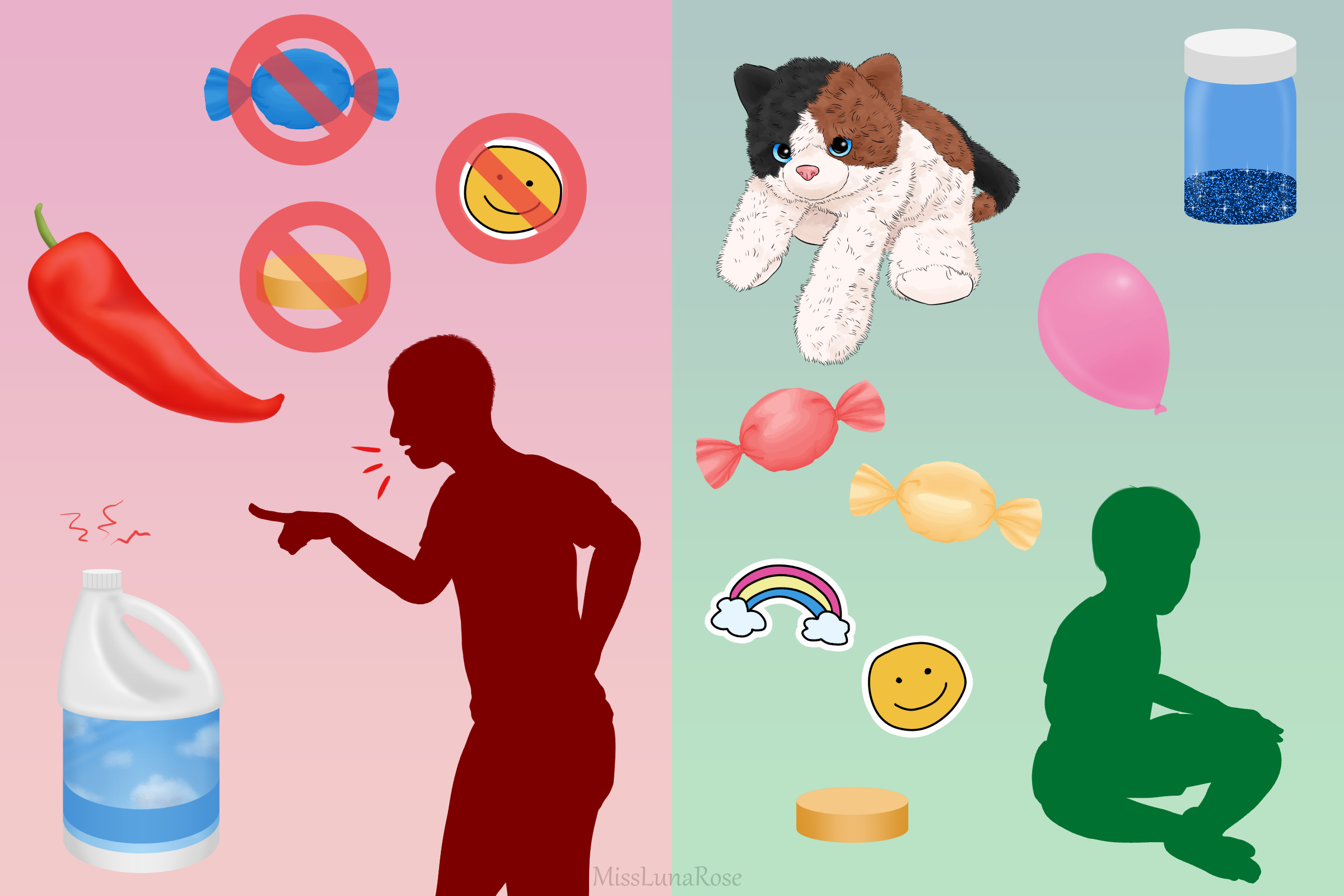 This image depicts punishments and rewards that may be used in ABA. Punishments include loss of a candy, loss of a sticker, loss of a token, being fed cayenne pepper, forced inhalation of ammonia, and being yelled at. Rewards include access to toys (such as stuffed animals, glitter jars, and balloons), candy, stickers, a token, and the ability to take a short break from the therapy session. (Tokens can be exchanged for bigger prizes, such as the ability to go play outside.)